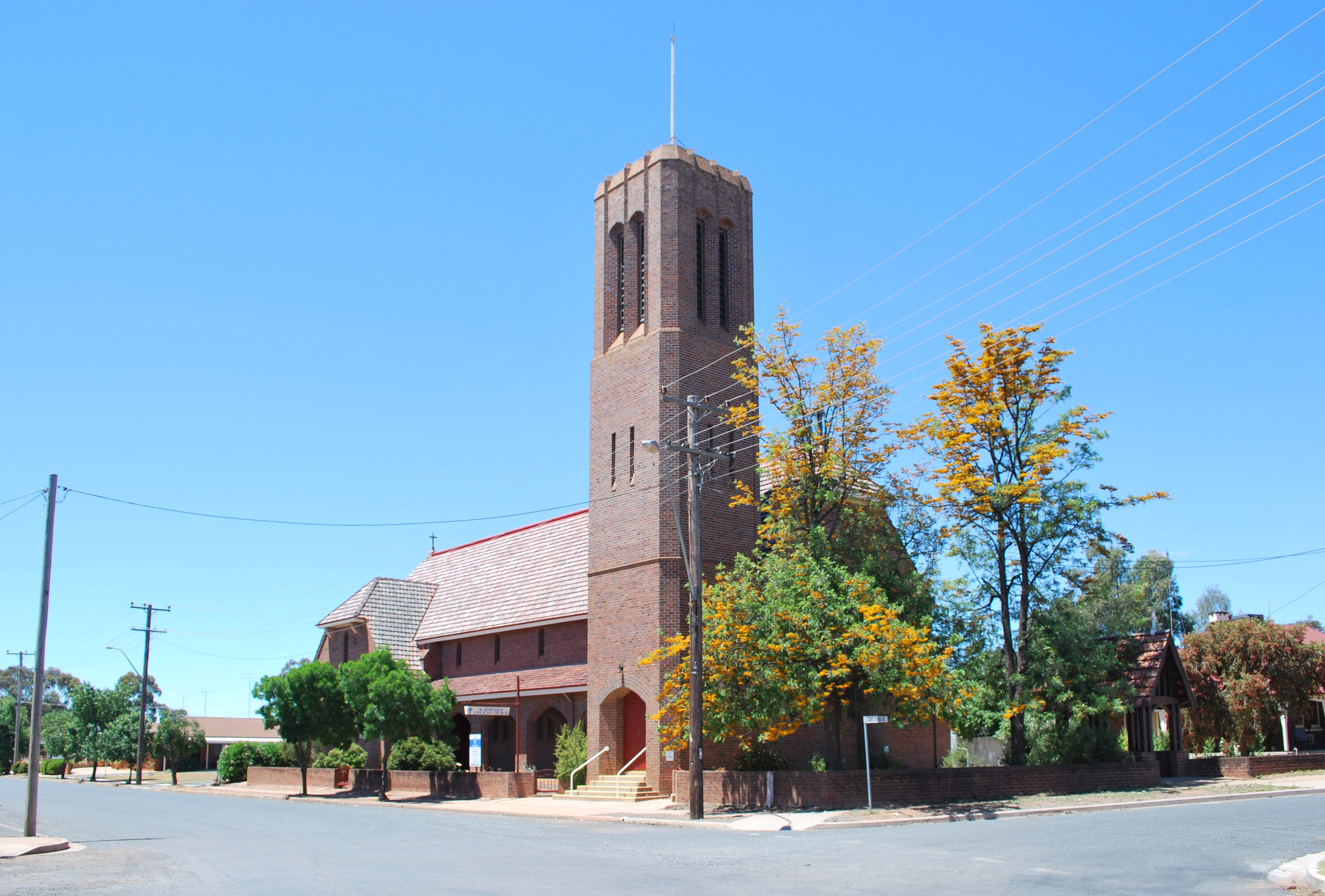 St Barnabas Anglican church at West Wyalong, New South Wales